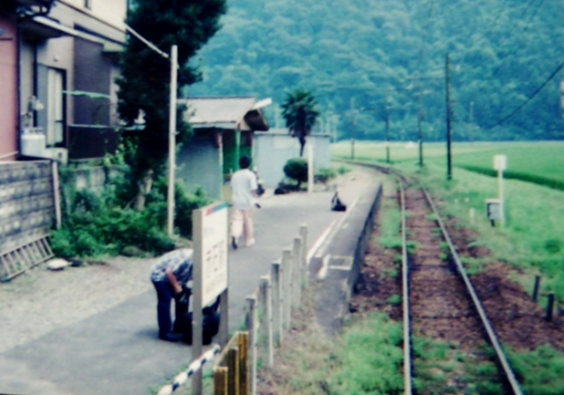 Meitetsu Tanigumi line Akaishi Station (2001)